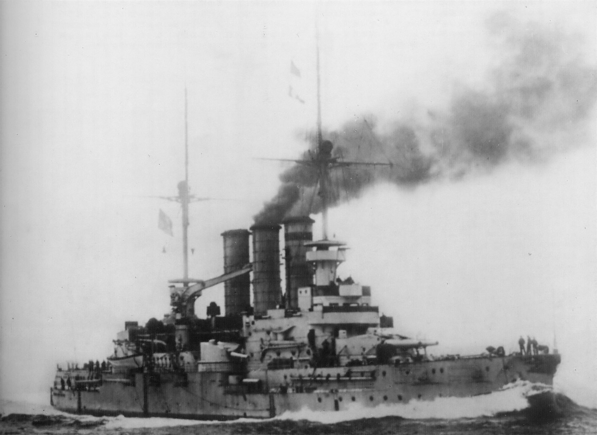 SMS Hessen.